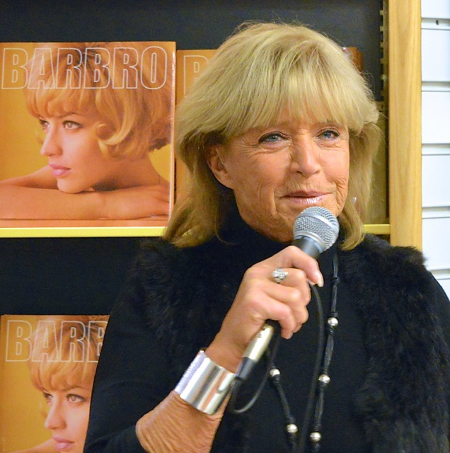 Lill-Babs signs the book "Barbro" at NK in Stockholm on December 5, 2013.